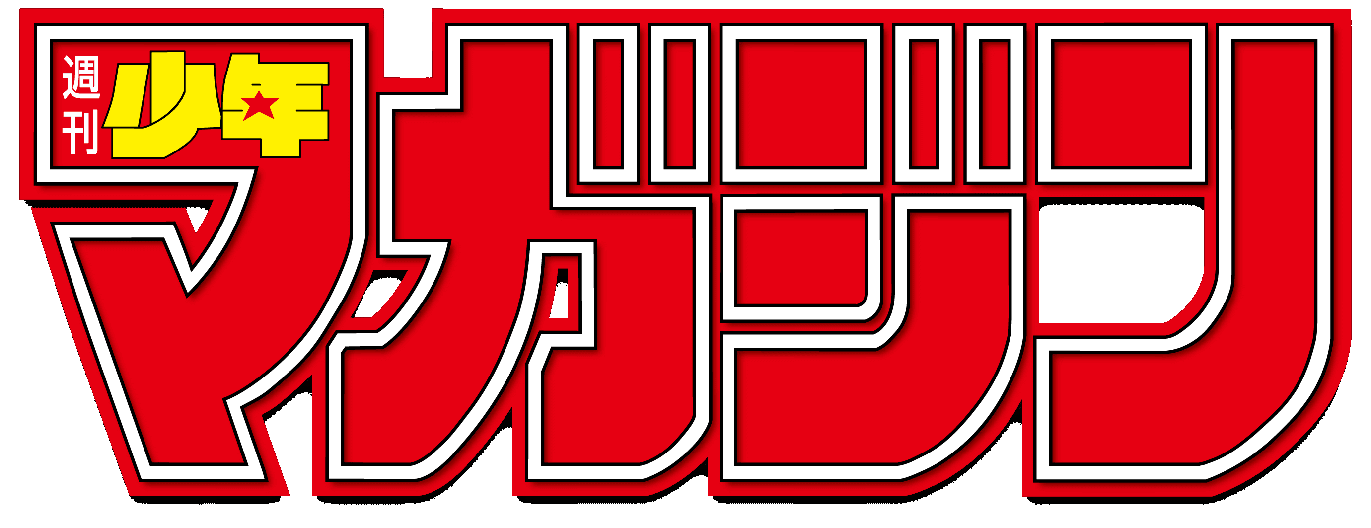 Shūkan Shōnen Magajin (週刊少年マガジン) logo.